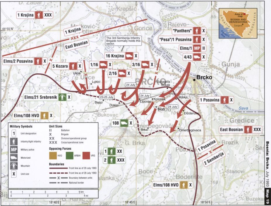 Brcko, July 1993